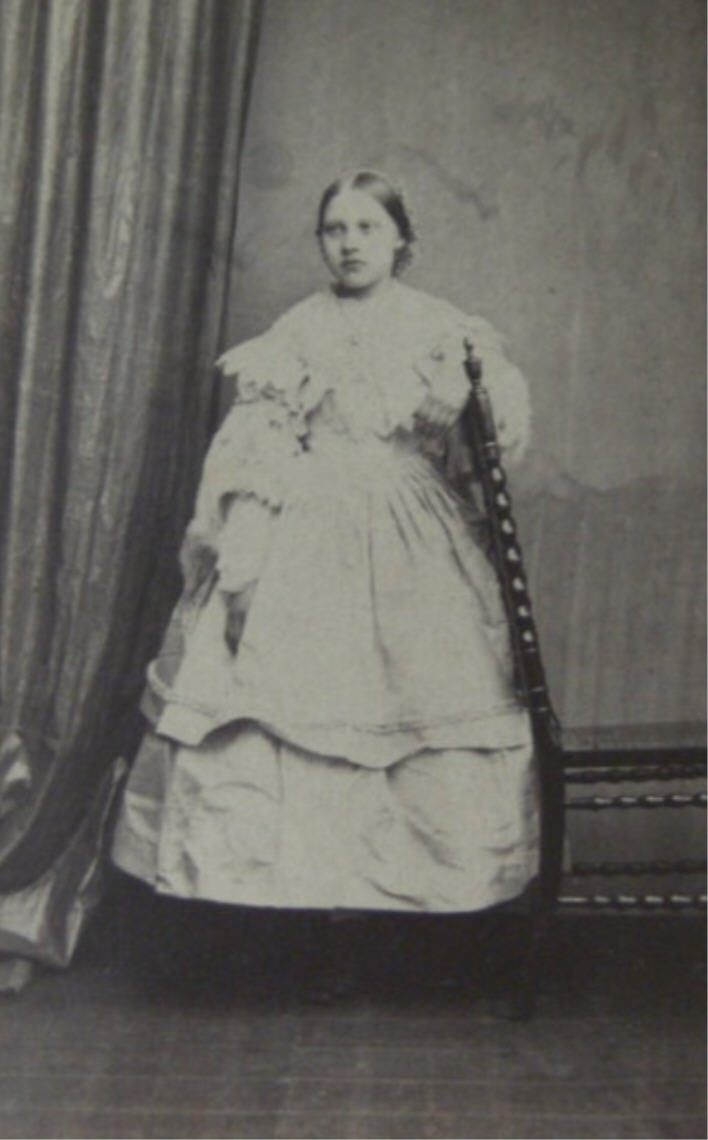 Portrait of Marie von Hannover (1849-1904)